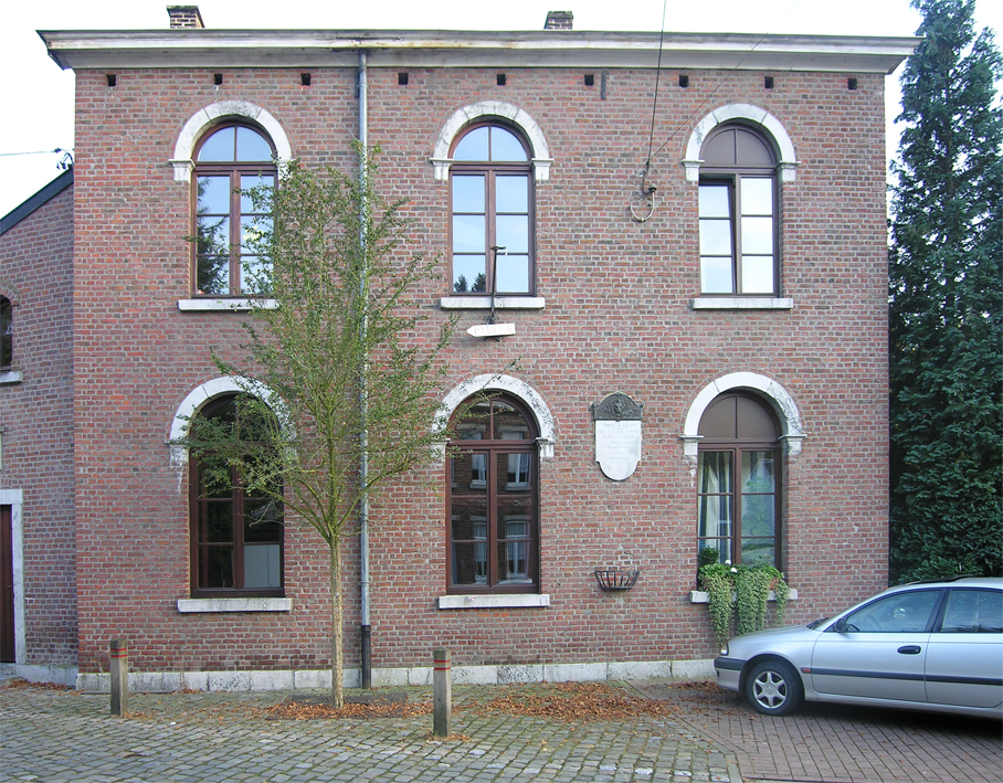 Herve (Bolland), Belgium: Former townhall